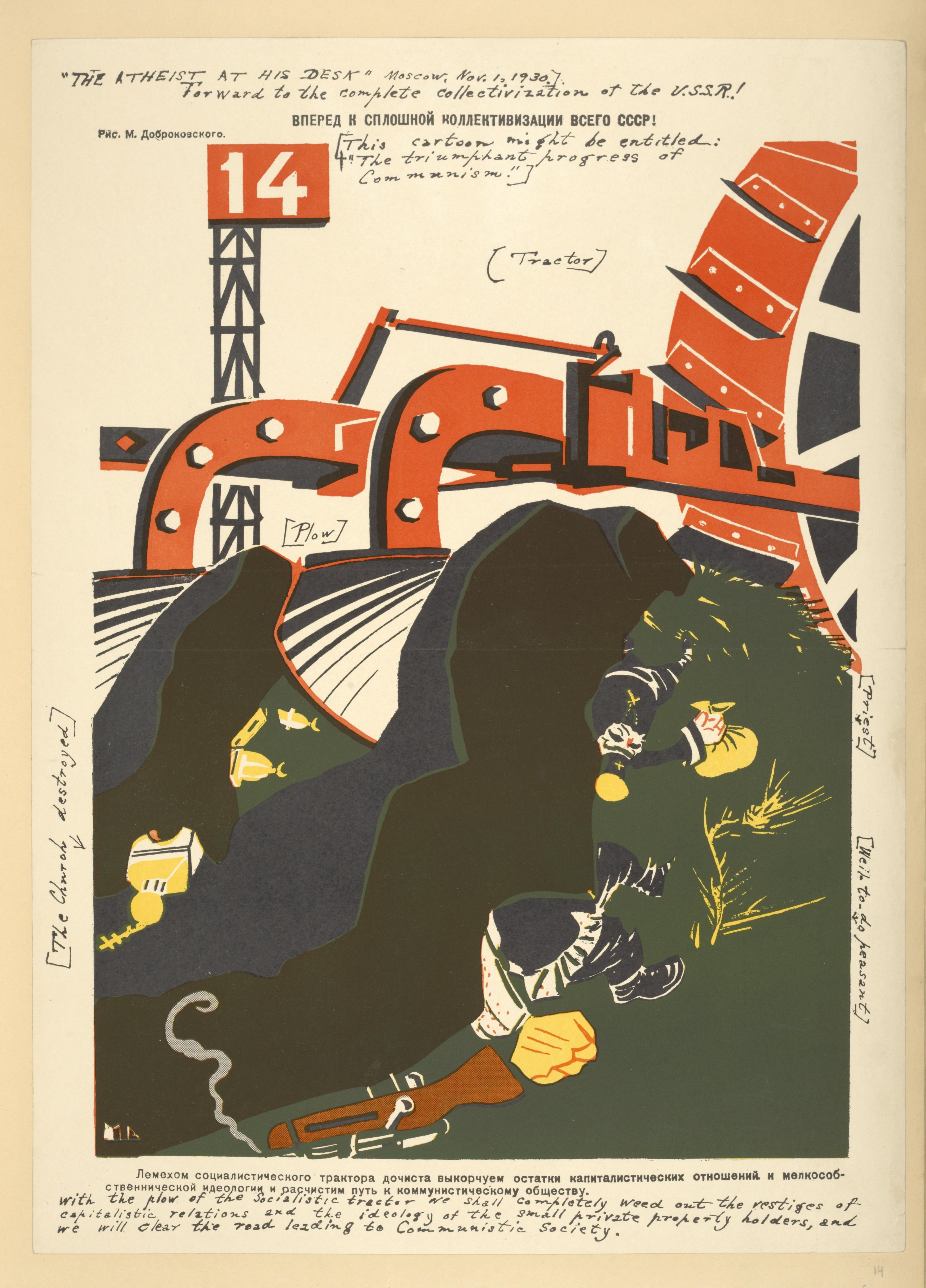 Cover of Bezbozhnik, Soviet atheist magazine - Forward to the complete collectivization